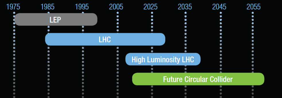 Previous experience shows that a timescale of about three decades is required to design and construct a reliable and efficient accelerator that will reach higher energies and luminosities.